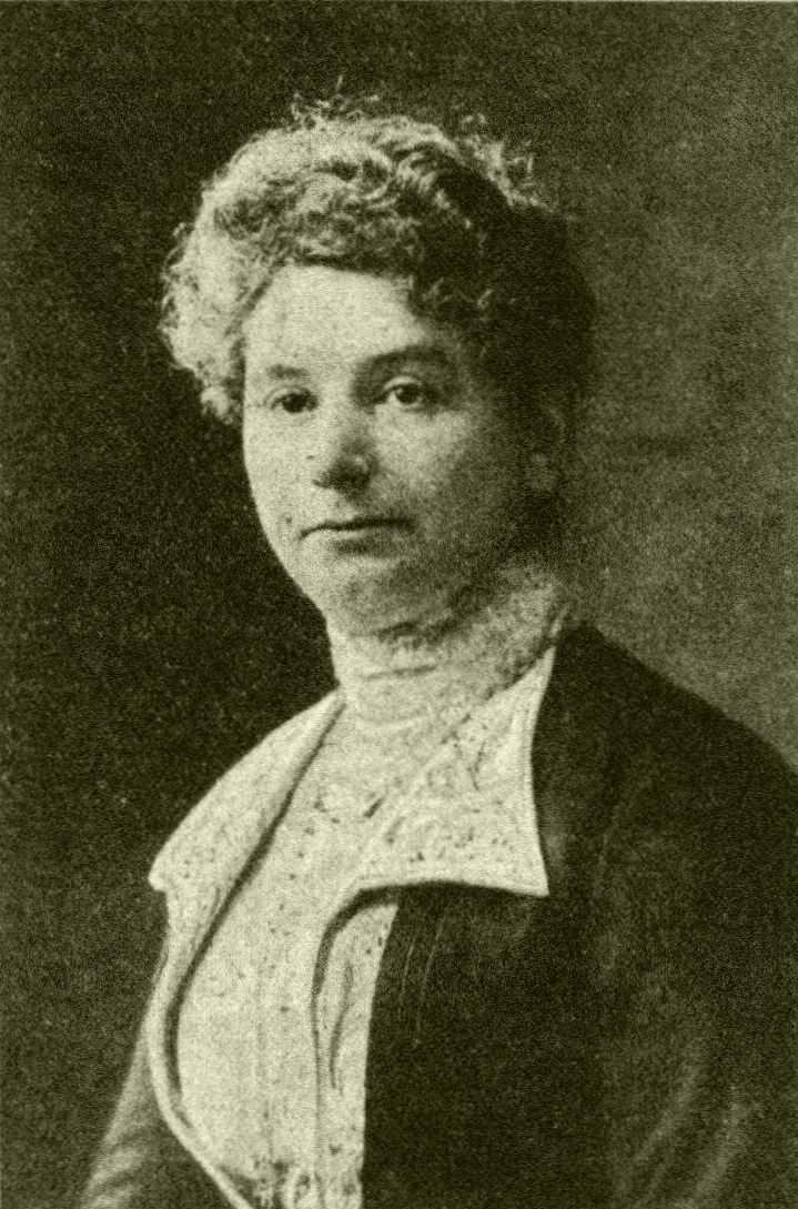 Elise Richter (1865 – 1943), in 1905 she was the first woman to receive the Habilitation for her work on Romane languages